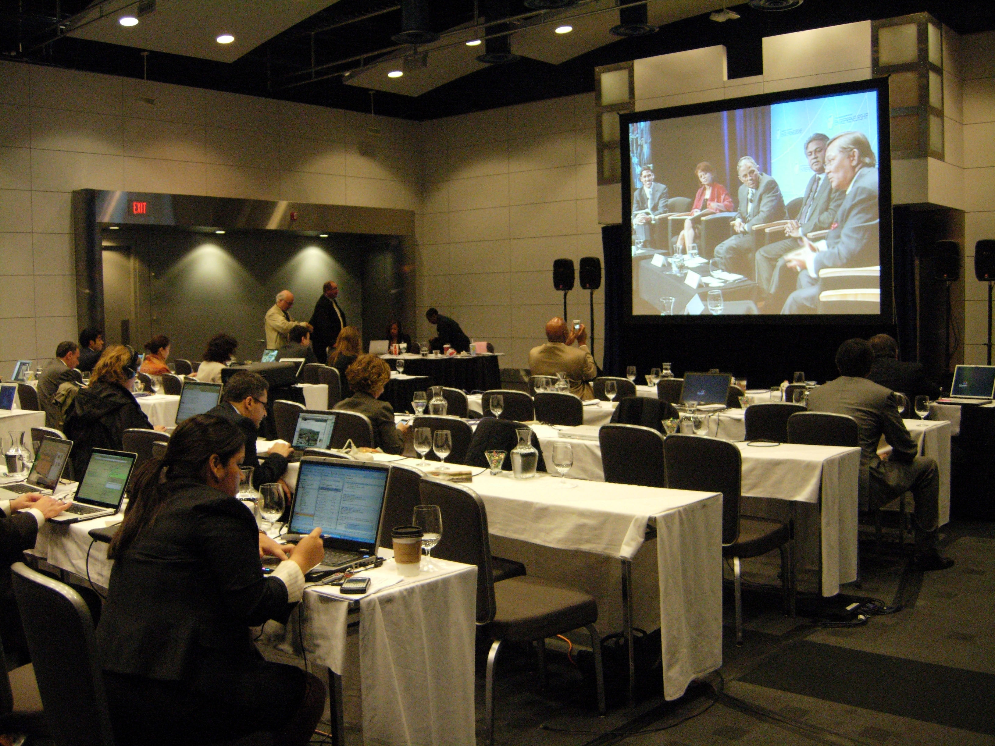 The Foreign Press Center corps observes leaders at the Presidential Summit on Entrepreneurship, Washington, D.C., April 26, 2010. [State Department Photo/Public Domain]